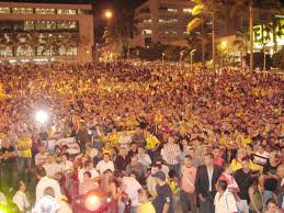 Hinchada Matecaña, Presentación Plantilla 2008.